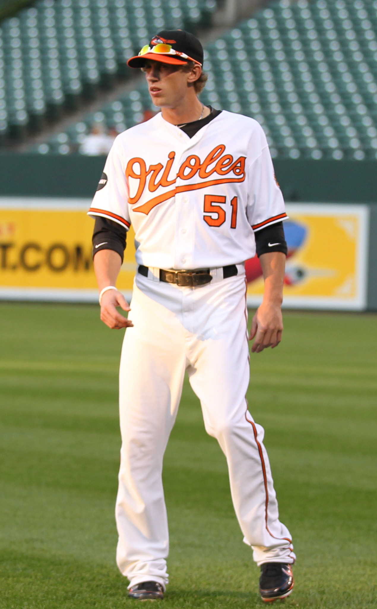 Kyle Hudson on September 12, 2011.